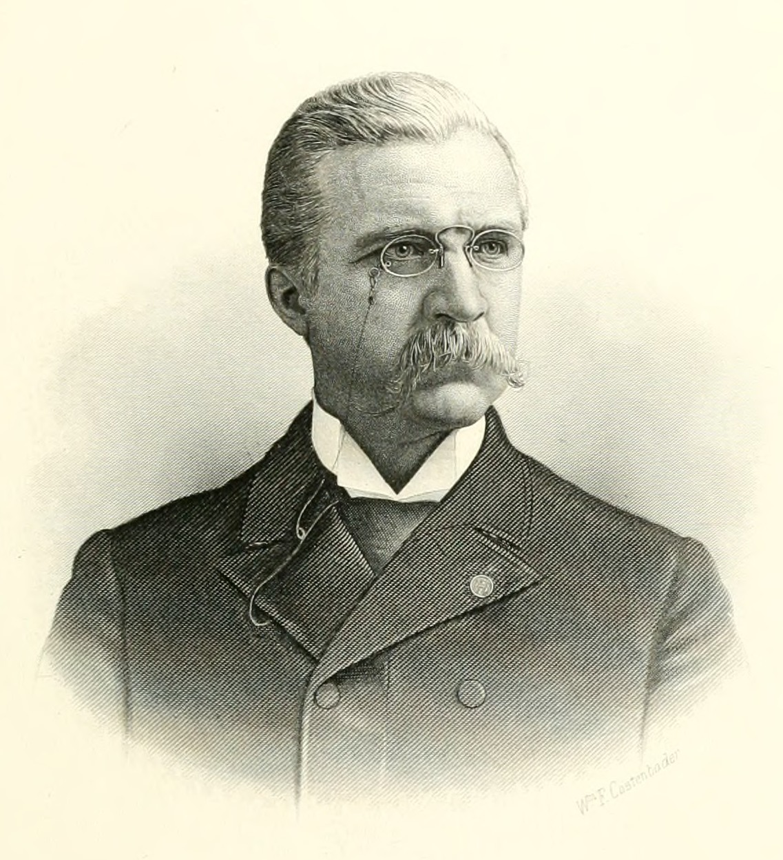 Portrait of Clerk of the New York State Senate John W. Vrooman